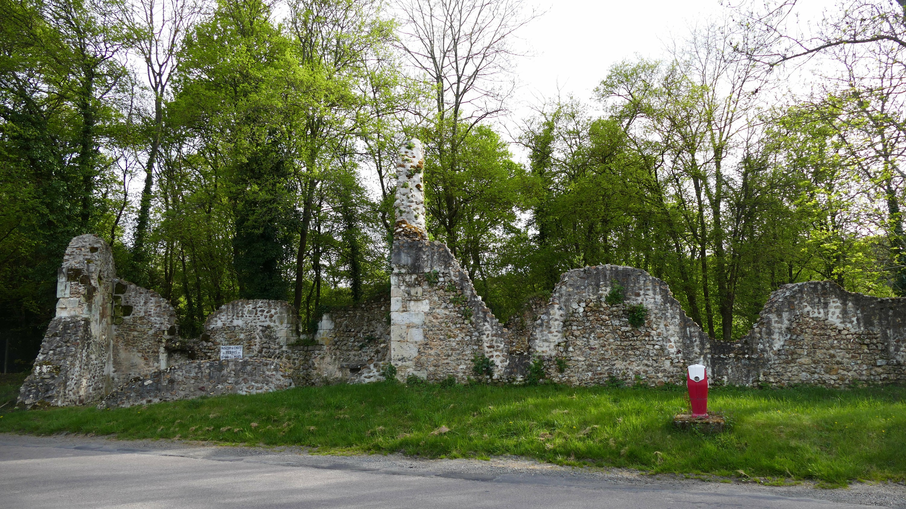 Saint-Médard's church in Villalet (Sylvains-les-Moulins, Eure, Normandie).